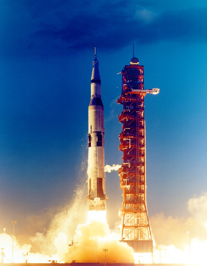 Apollo 4 lifts off from Pad 39A - the first flight of a Saturn V rocket